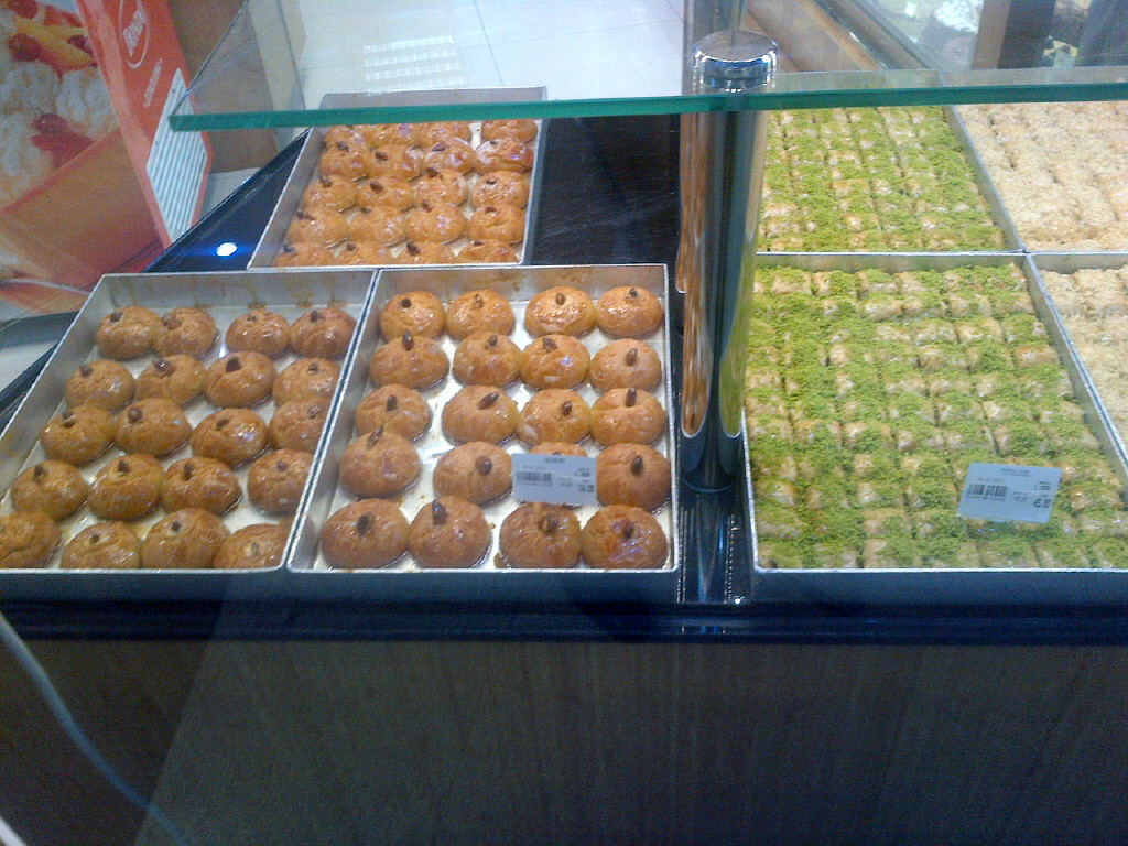 Şekerpare (left) baklava with psitachios (centre) and nuriye tatlısı (right) on a shop window at Ankara